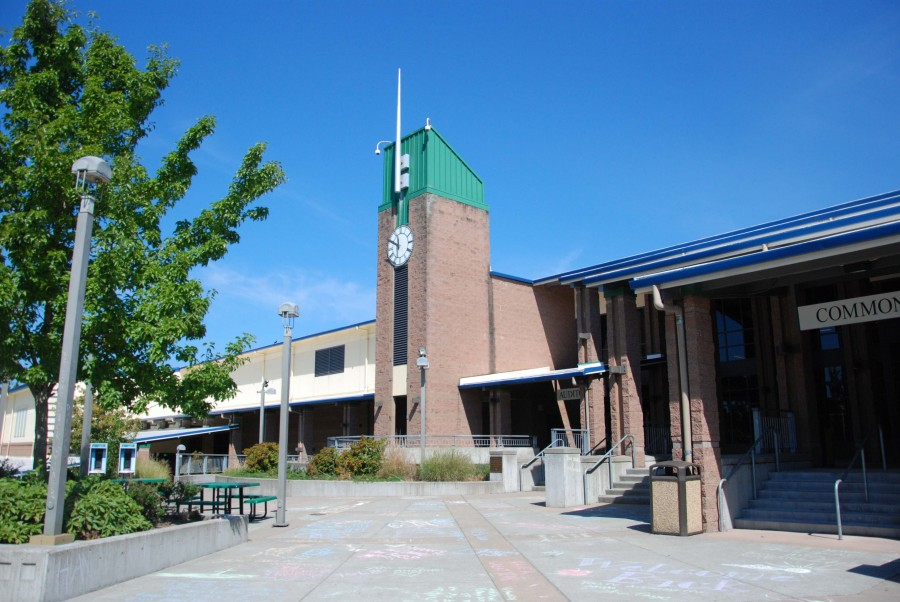 A photograph of the clock tower and Commons entrance to ERHS